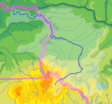 Šešupė basin / catchment area of Šešupė in relation to the Neman